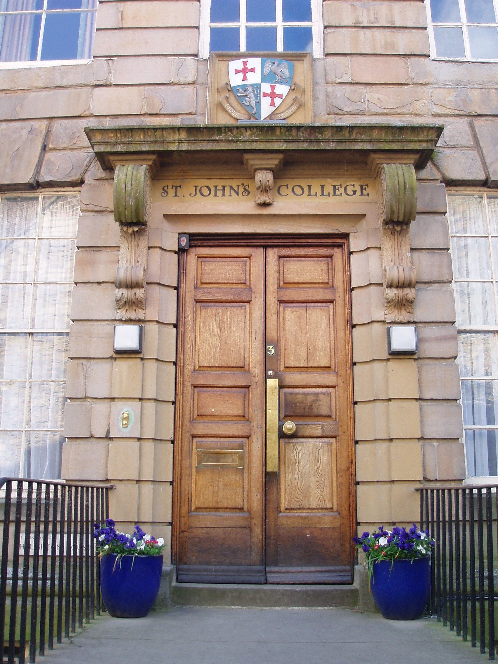 Doorway to St John's College, Durham.